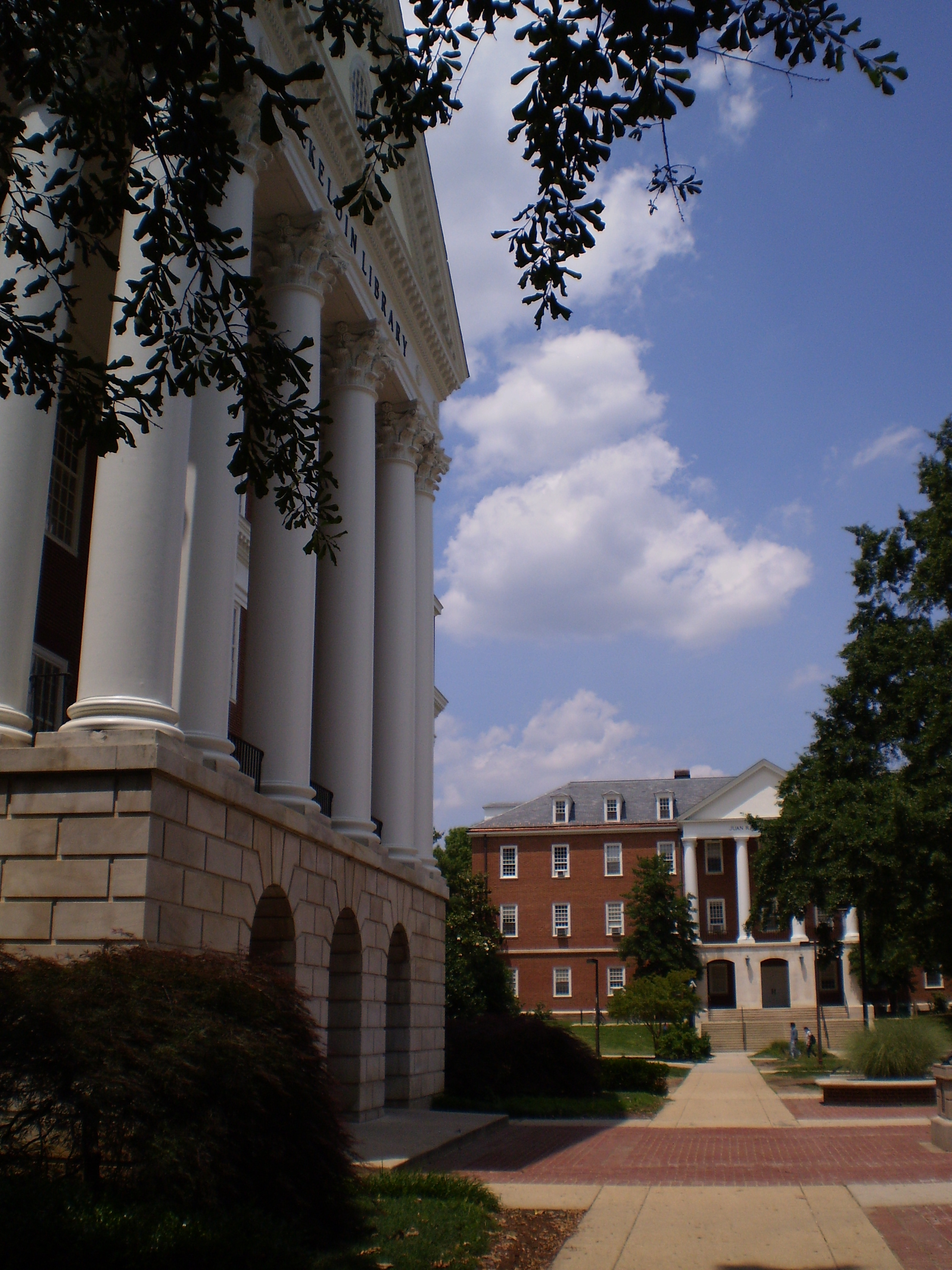 View of McKeldin Library and Jiminez Hall on the campus of the University of Maryland, College Park.